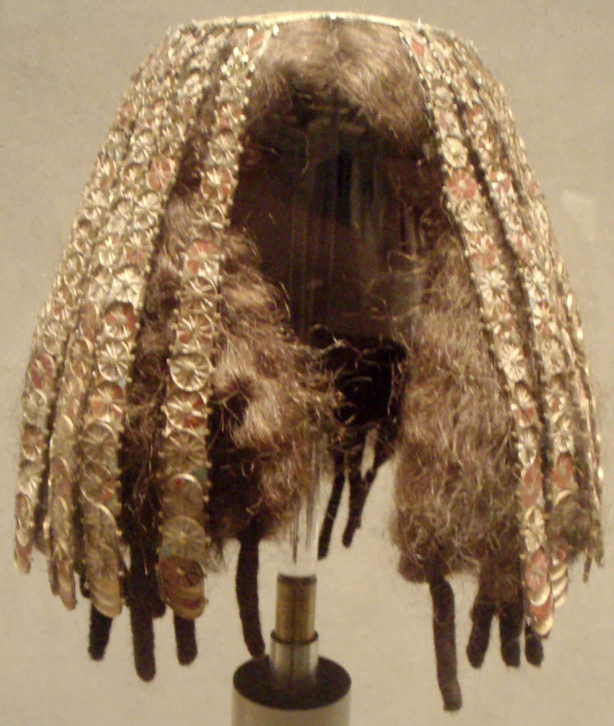 Wig cover, an approximate recreation (from original pieces) from the tomb of three minor wives of Thutmose III at Wady Gabbanat el-Qurud, circa 1479-1425 B.C. Made of gold, gesso, carnelian, glass and jasper.